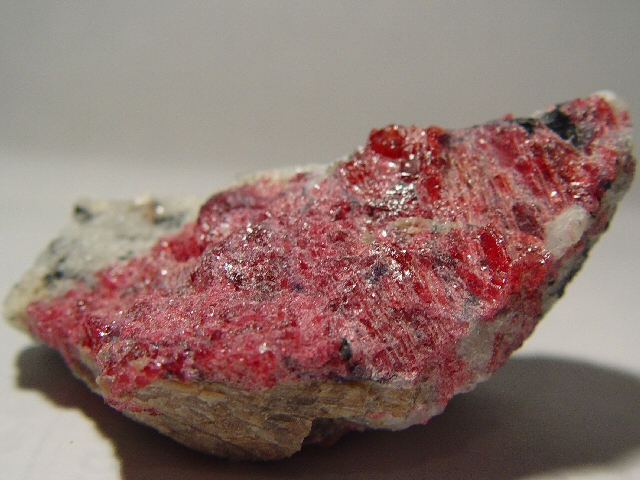 Eudialyte on matrix, in my collection